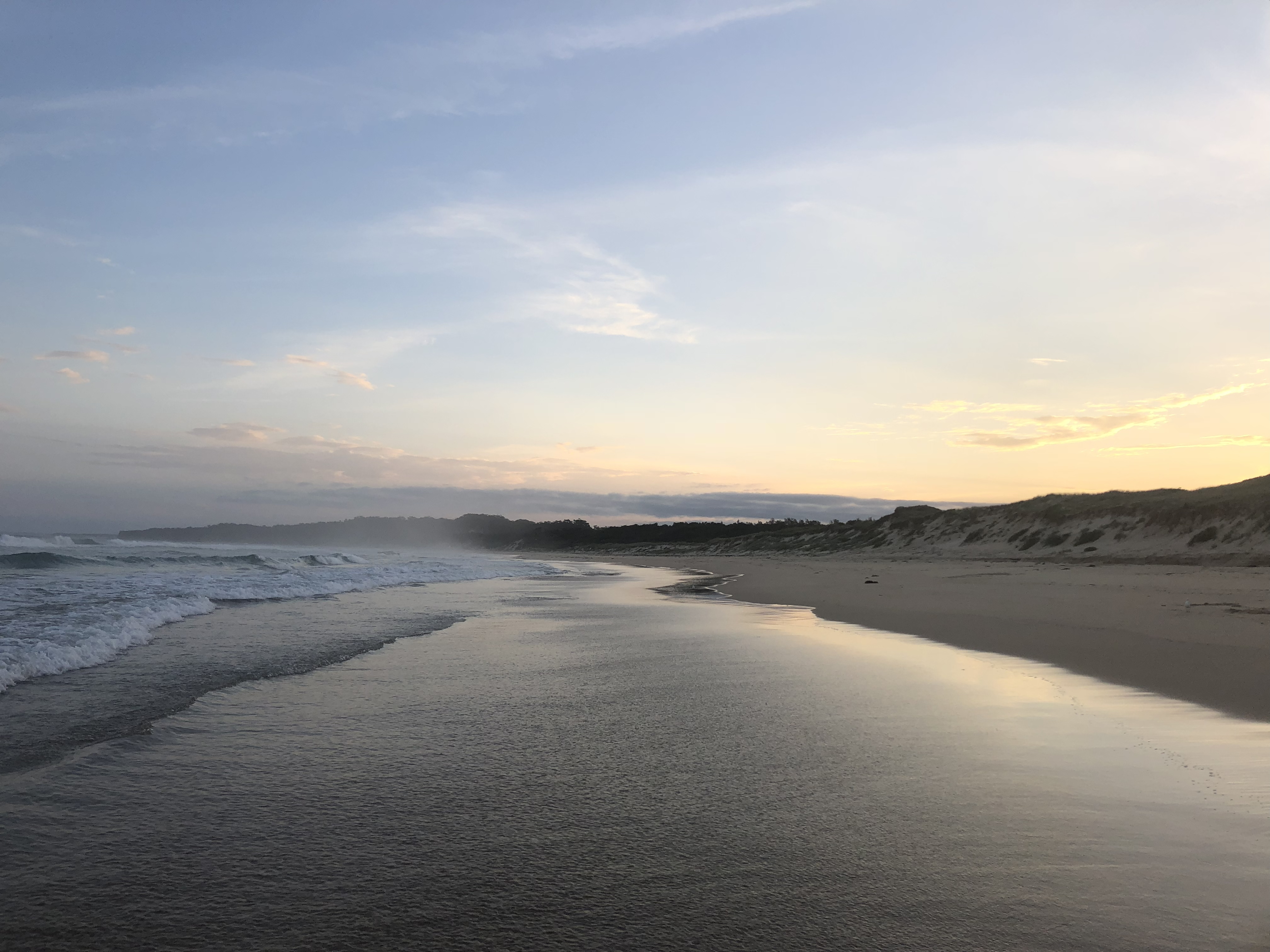 Image of Bherwerre Beach, taken at 5 o'clock in the evening, facing west